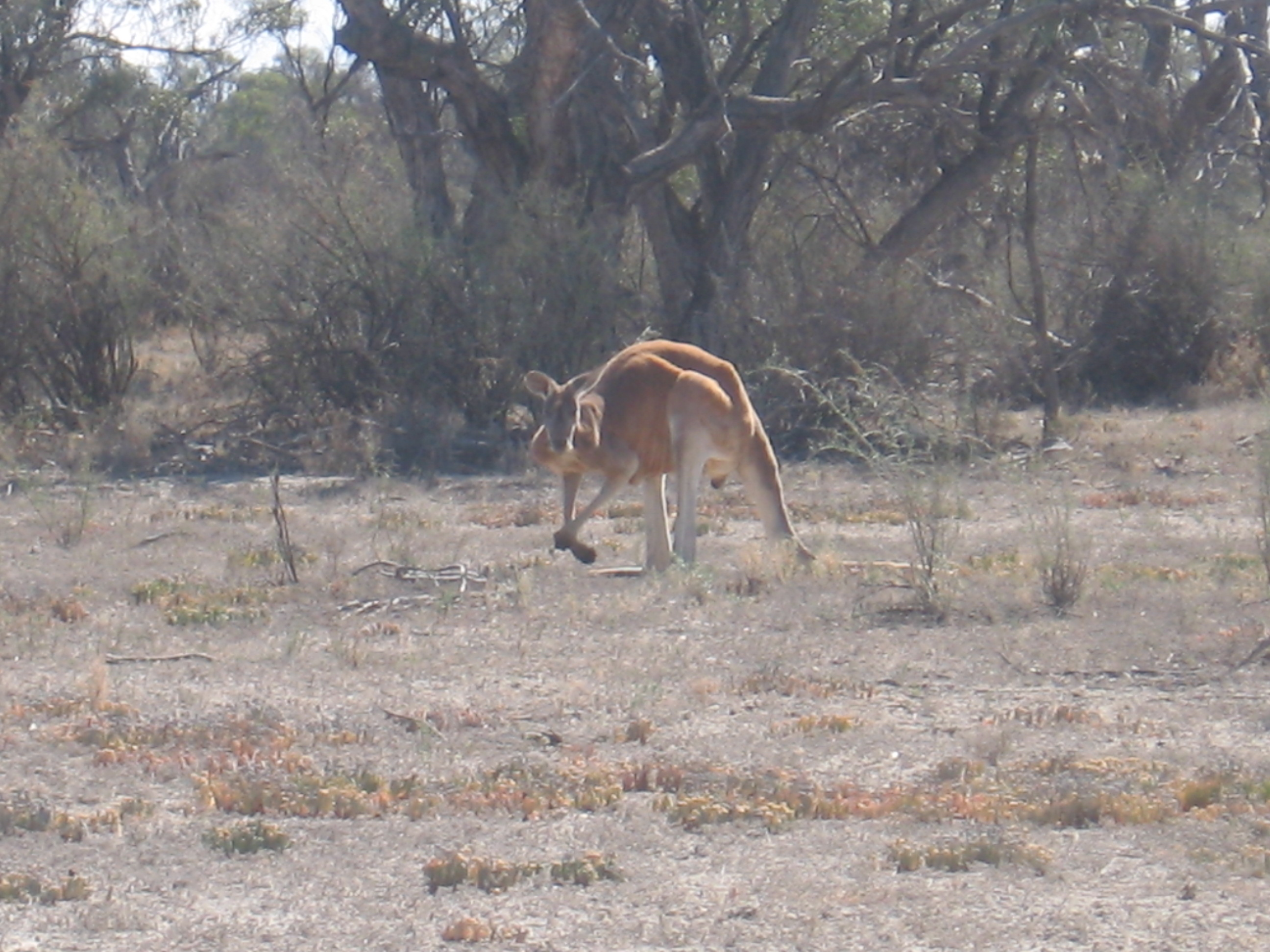 Red Kangaroo (macropus rufus) in Murray Sunset National Park